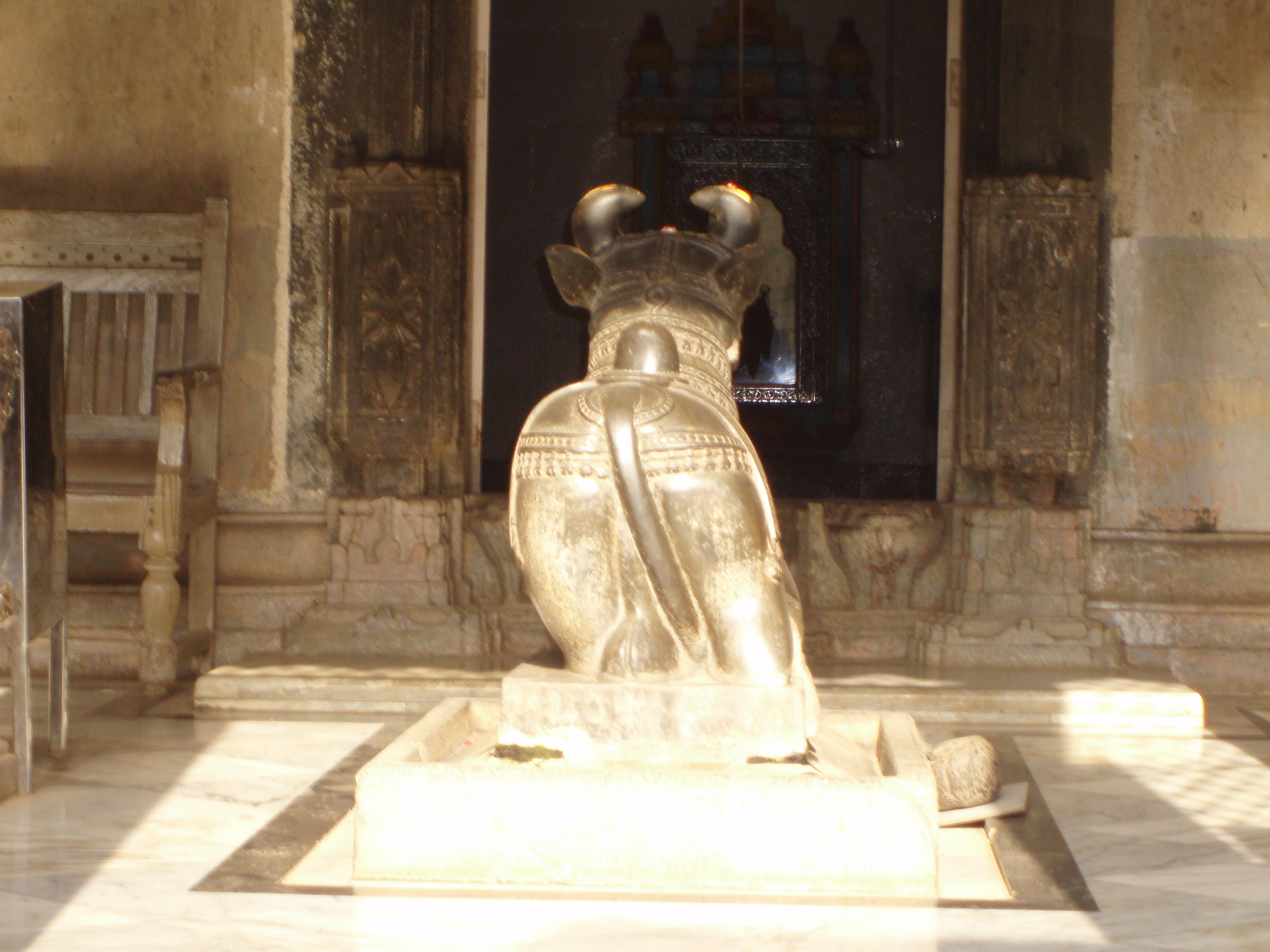 Nandi the Bull stands guard at the entrance of an Ancient Shiva temple at Walkeshwar, Mumbai, India